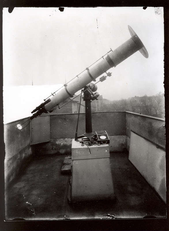 Refractor telescope Merz 160/1790 (aperture/focal lenght in mm) with schreen. Maker: G. & S. Merz, München. Public observatory of Baron Kraus in Pardubice, 1912–1930